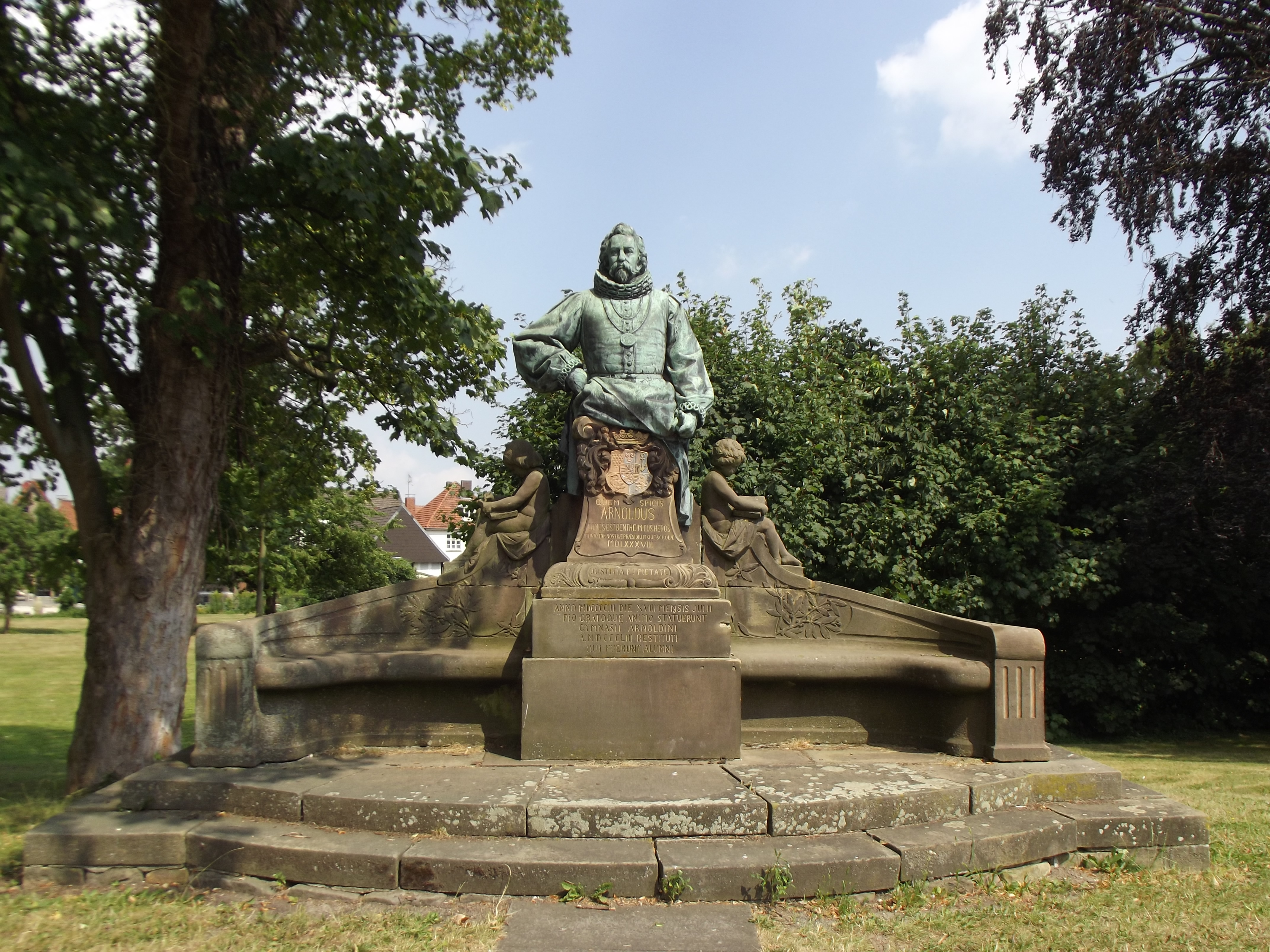 Graf Arnold was a School founder This image shows a heritage building in Germany, located in the North Rhine-Westphalian city Steinfurt (no. 56).